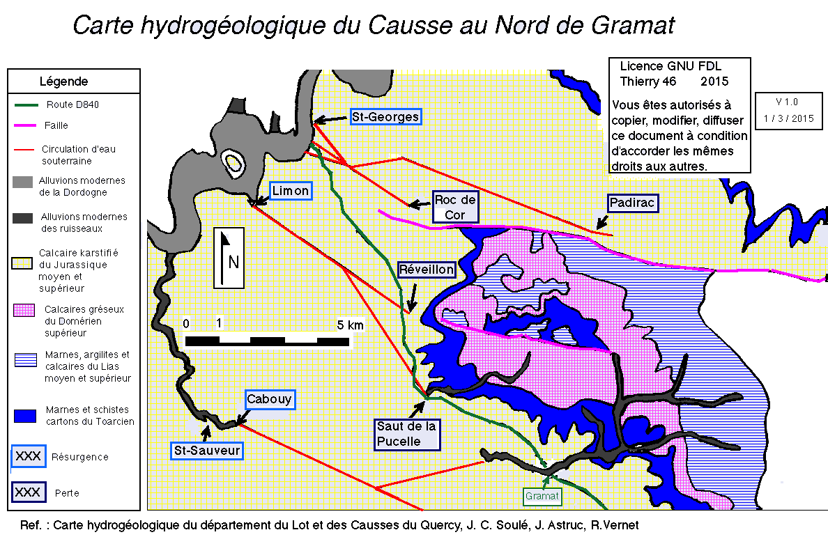 hydrogeological map of the north area of Causse of Gramat in Lot in France.